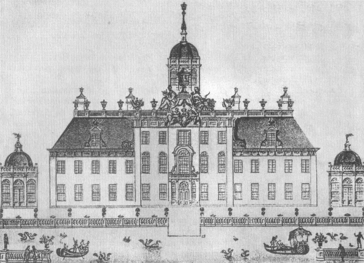 Podzorny Palace in Saint Petersburg. Drawing by project of Steven van Zwieten.